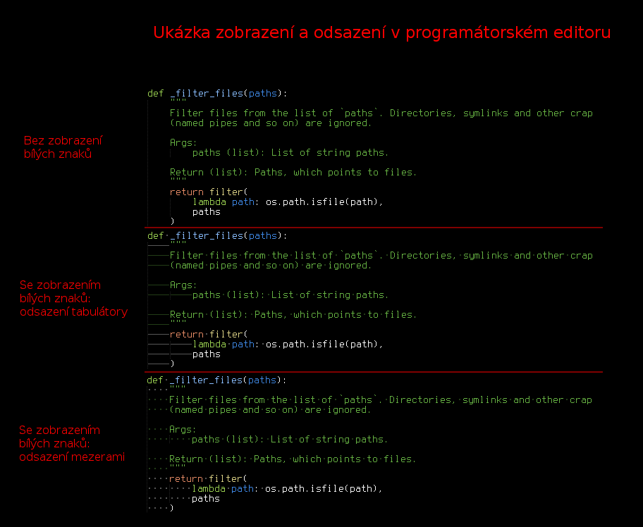 Examples of indentation and whitespaces in Sublime text 3 editor.